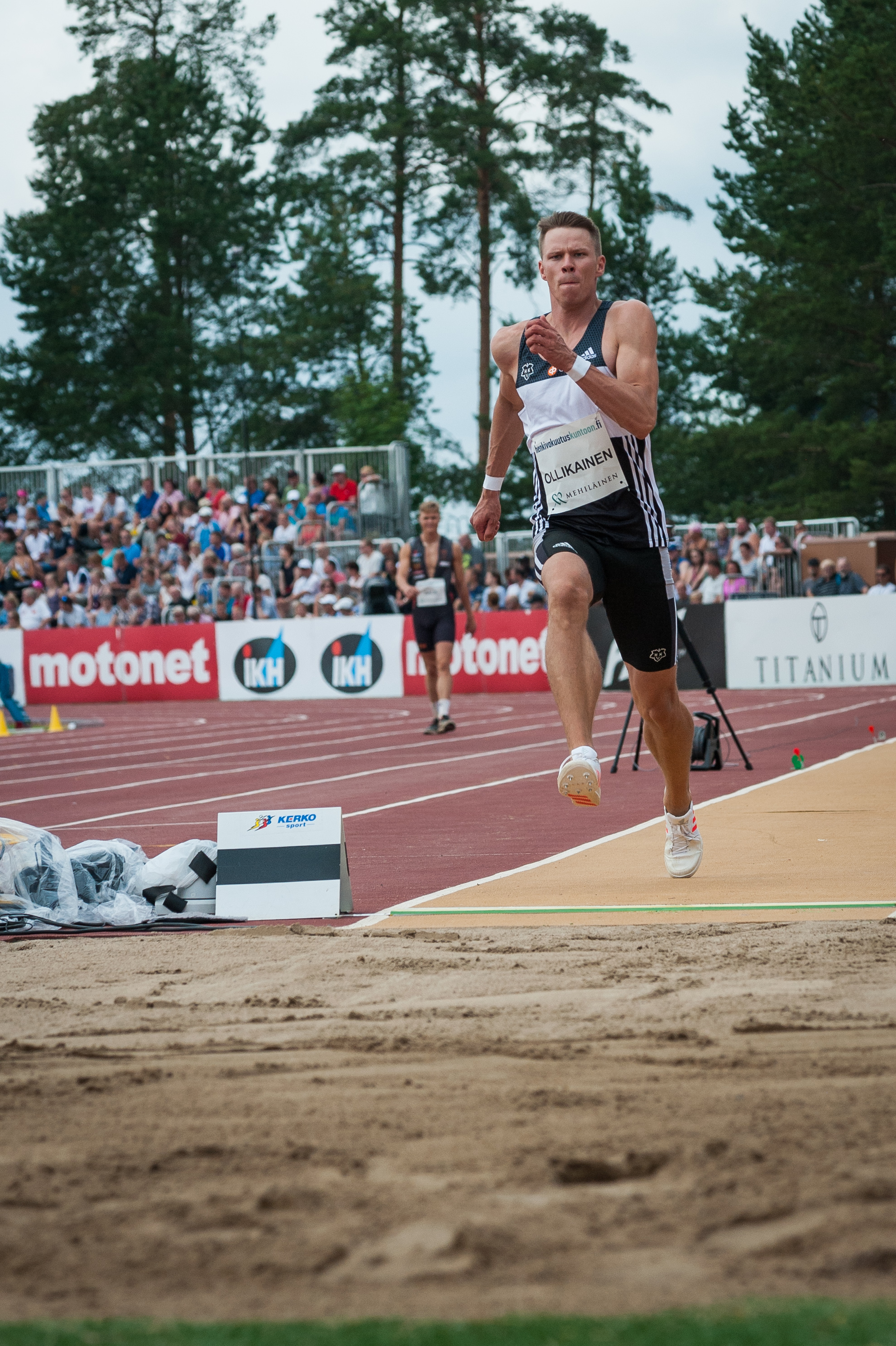 Men's long jump competition at the 2018 Kalevan Kisat, the Finnish championships in athletics, in Jyväskylä, Finland.